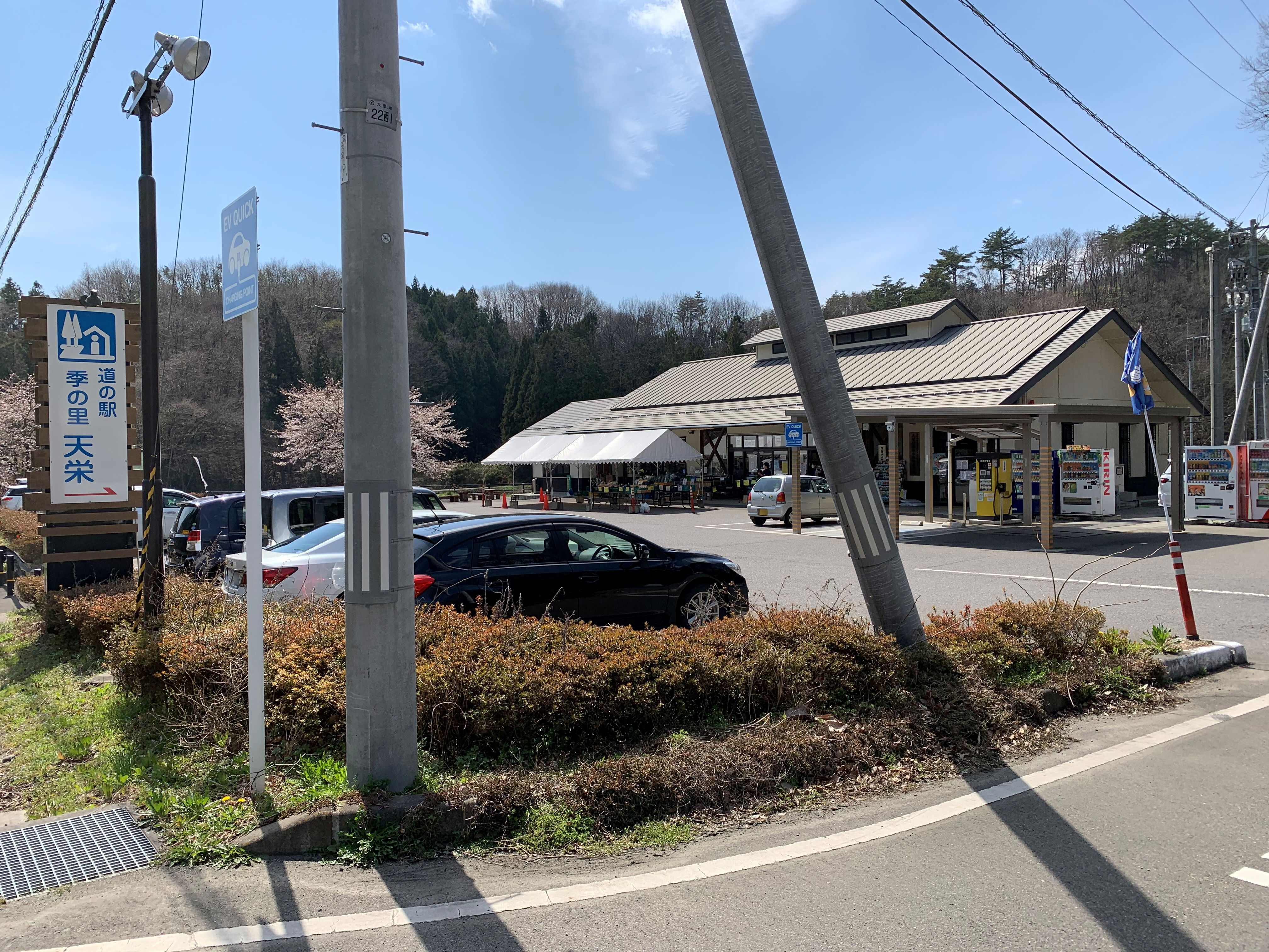 Kinosato Ten-Ei, Michi-no-Eki, Fukushima, Japan. Took photo in April 2020.